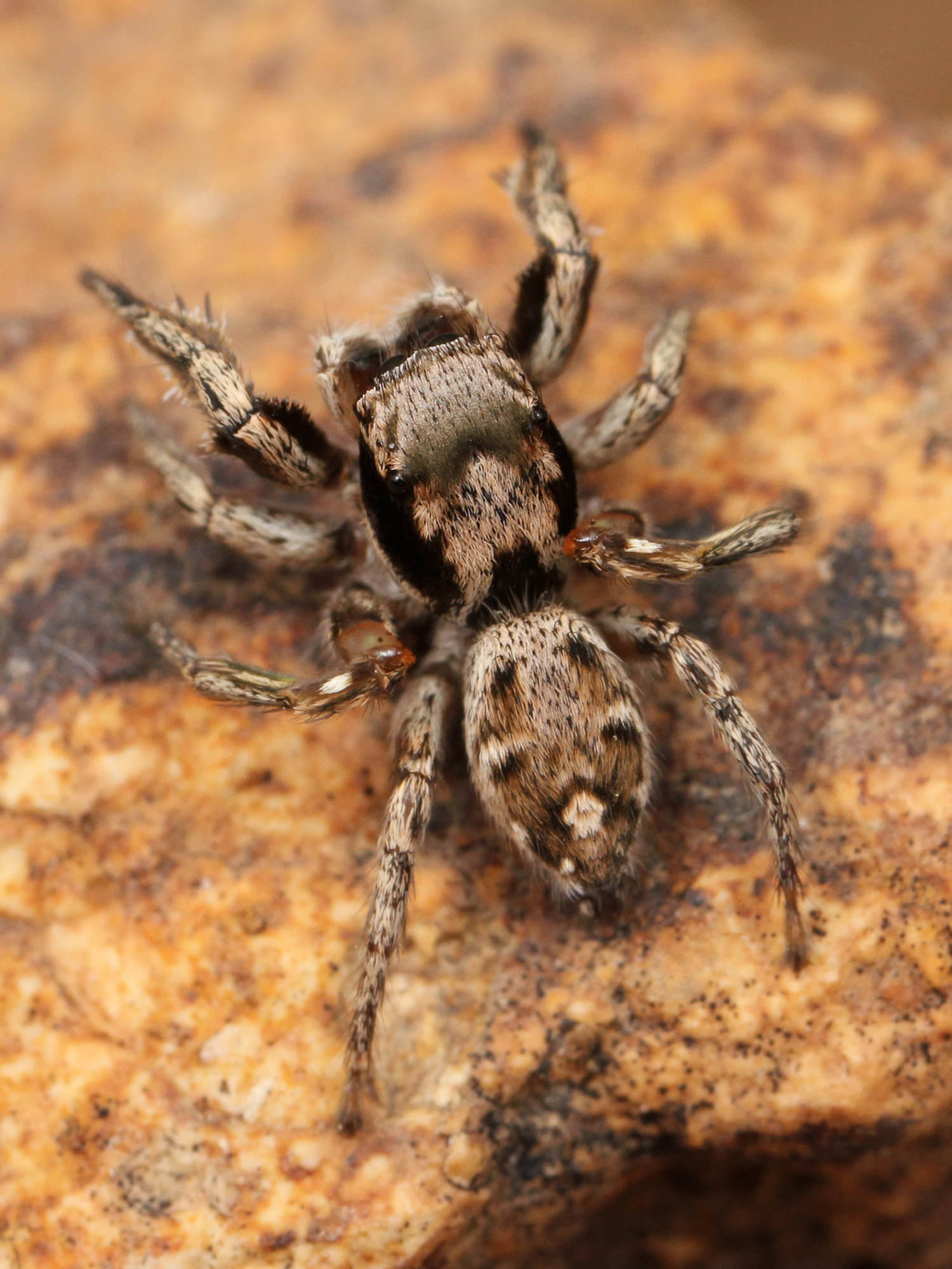 Adult male Habronattus coecatus jumping spider from Columbia, Missouri